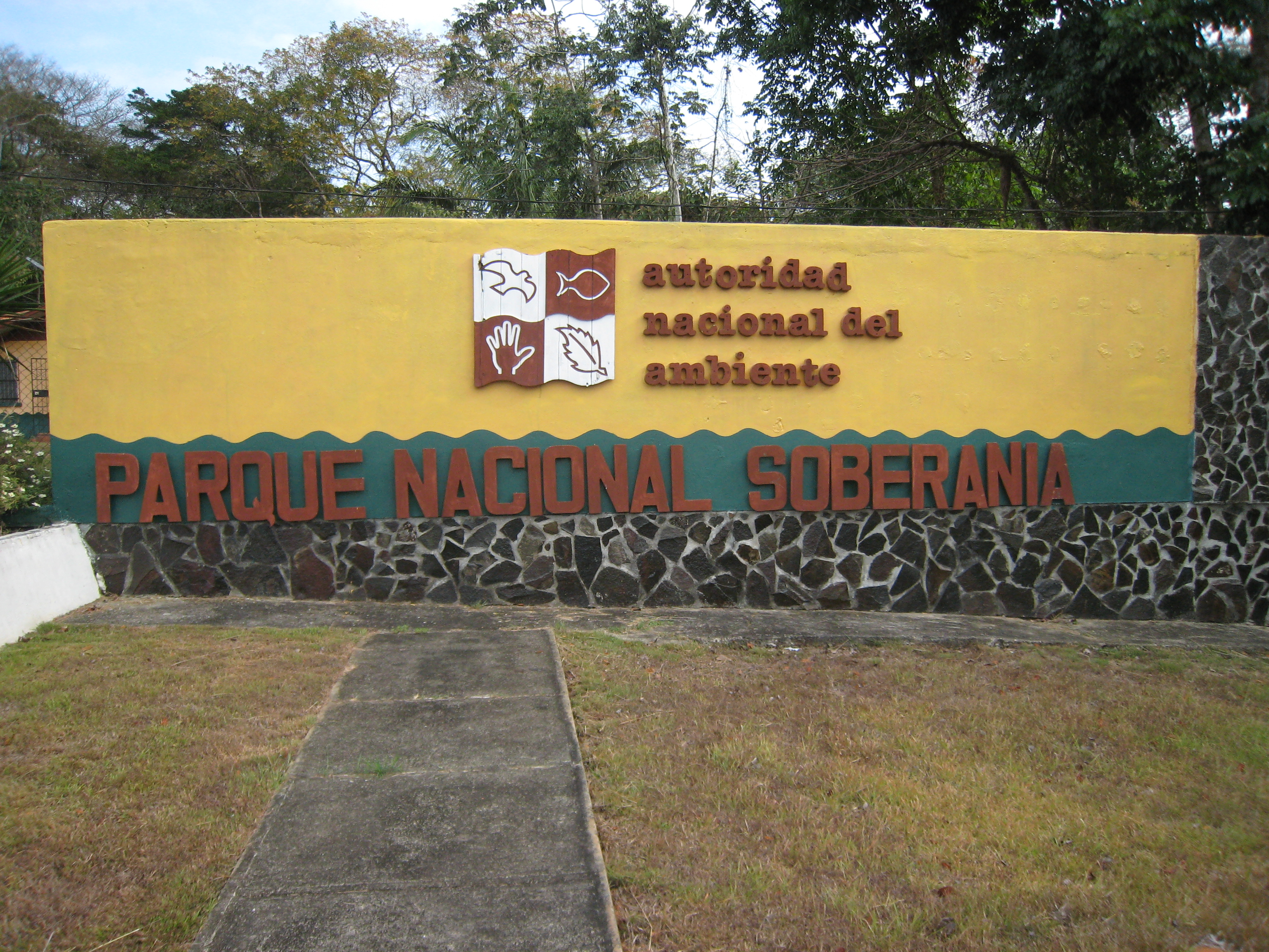 Entry sign Soberania National Park